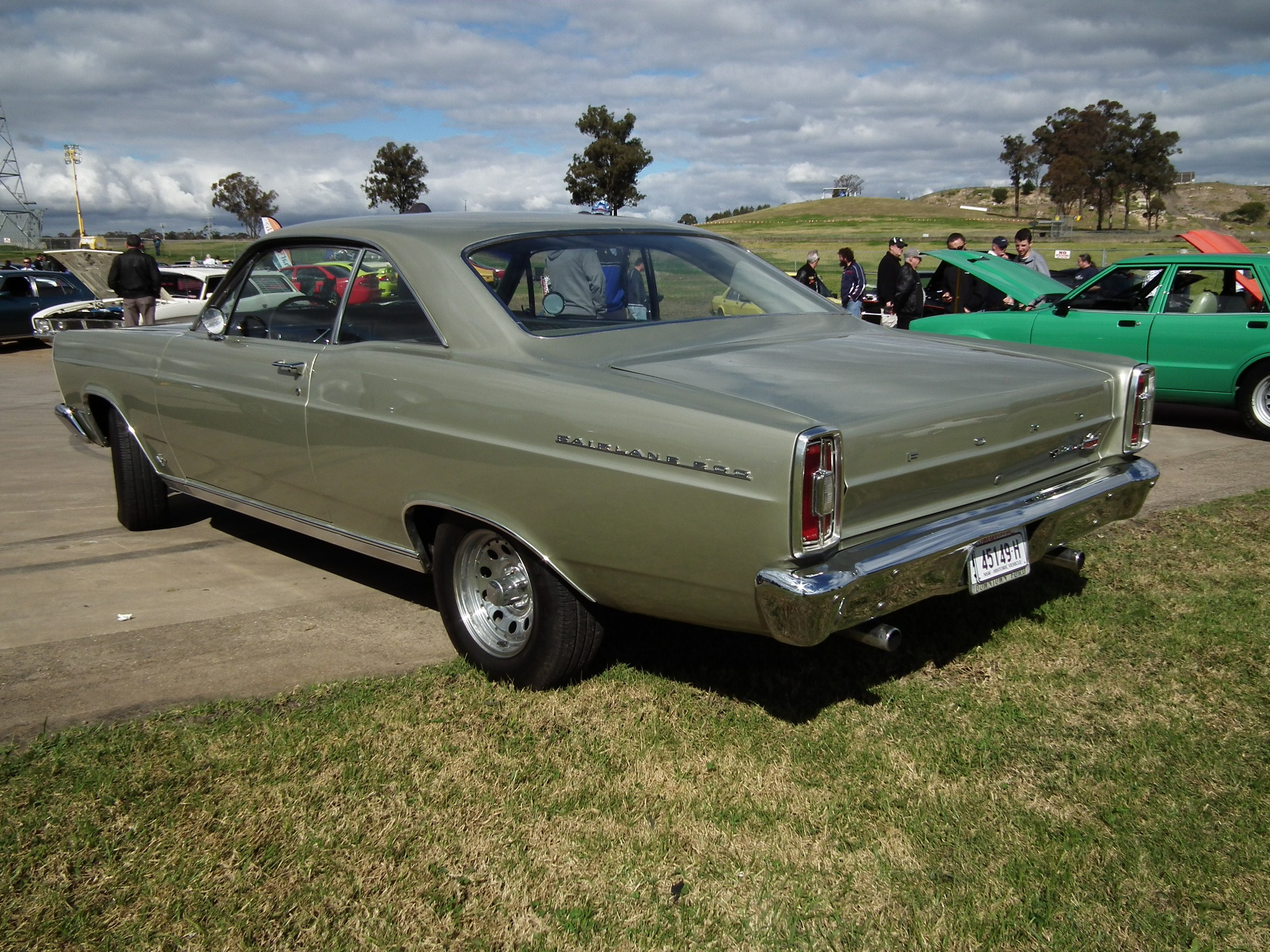 1966 Ford Fairlane 500 coupe. Taken at the 2012 New South Wales All Ford Day, held at Sydney Motorsport Park (formerly Eastern Creek Raceway).